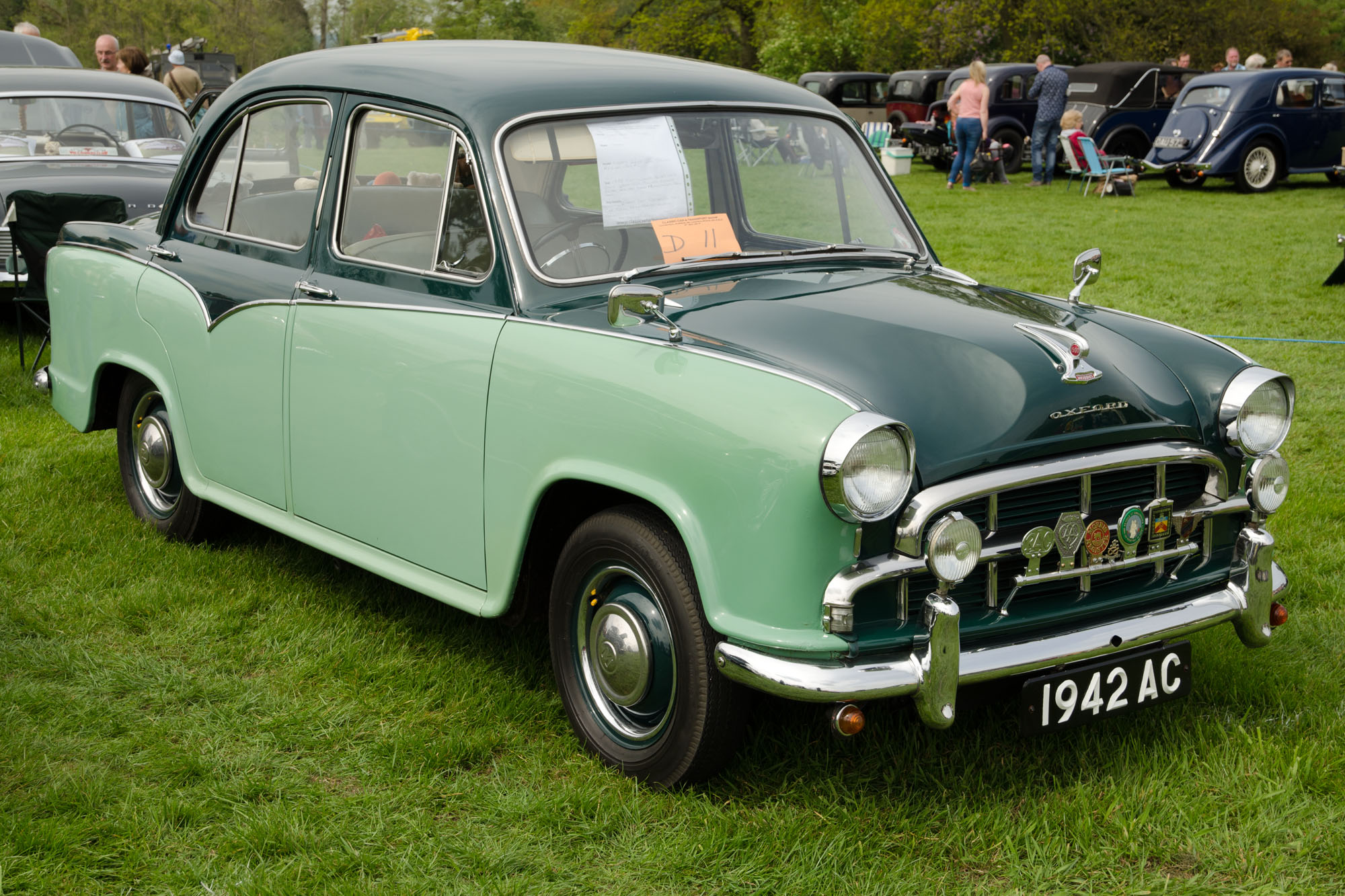 1958 Morris Oxford Series III Saloon (DVLA) first registered 15 October 1958, 1489cc Catton Hall Classic Car Show 04/05/2014